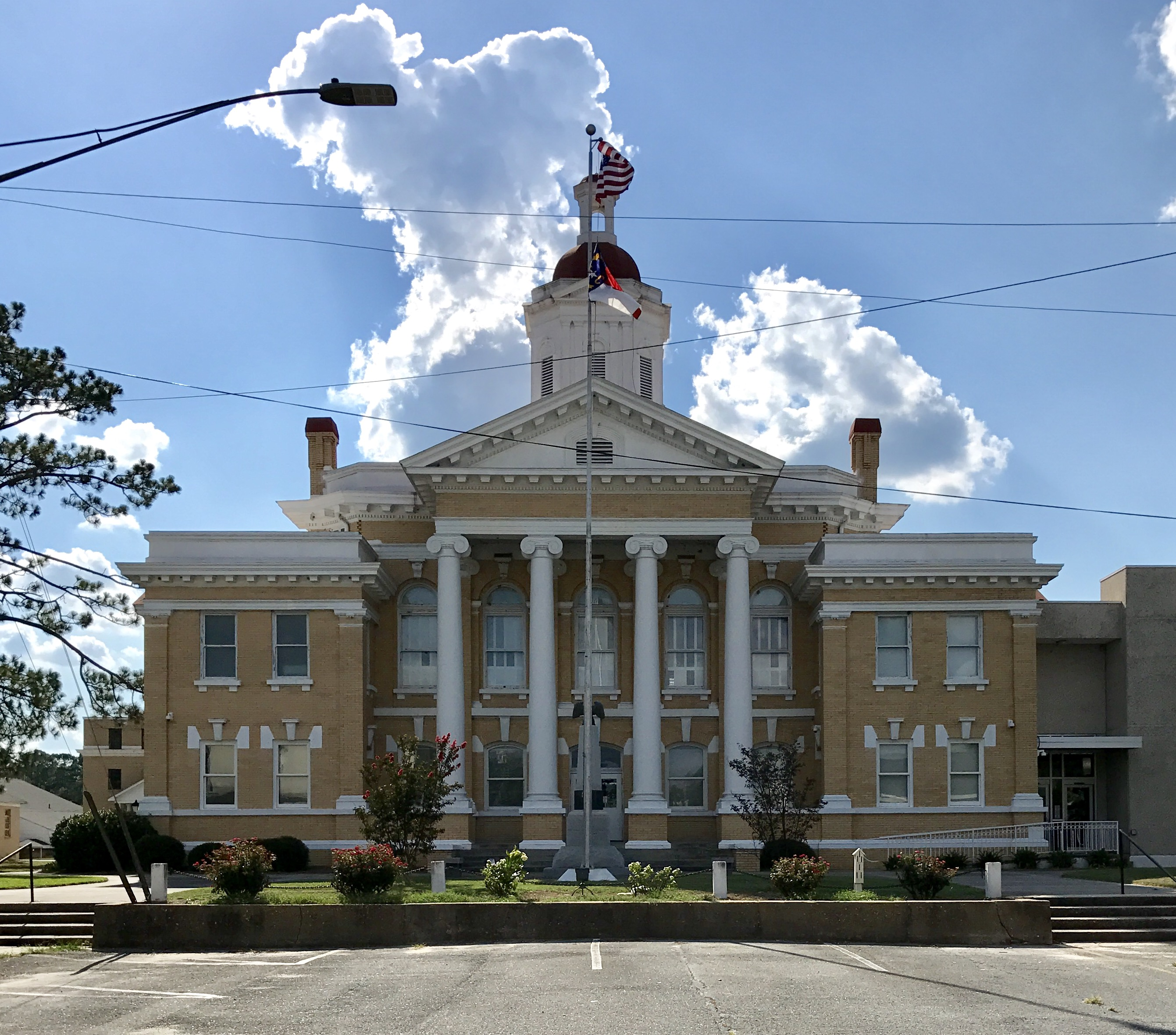 Front of the Duplin County Courthouse in Kenansville, North Carolina